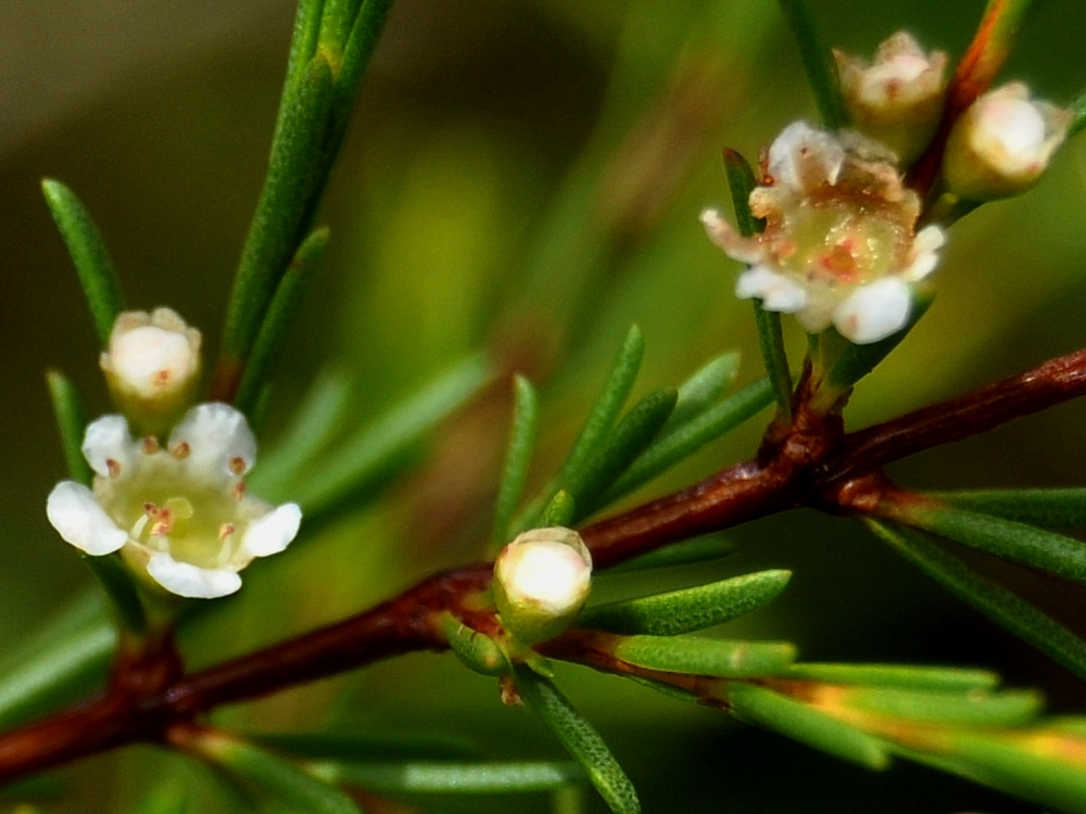 Baeckea frutescens flos et folii, close up. From Belitong, South Sumatra, Indonesia.